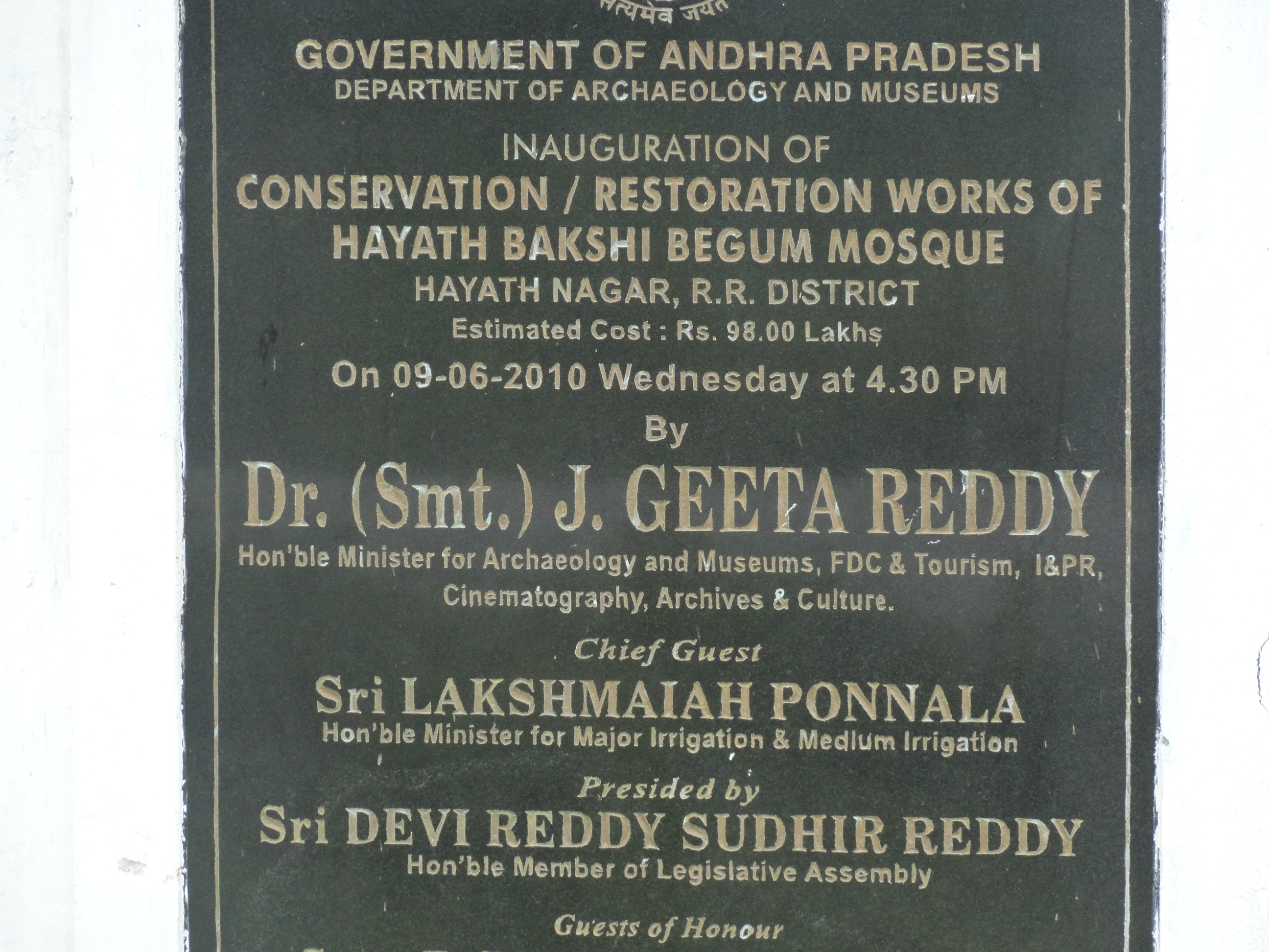 a board in the premises of hayatbakshibegum mosque.